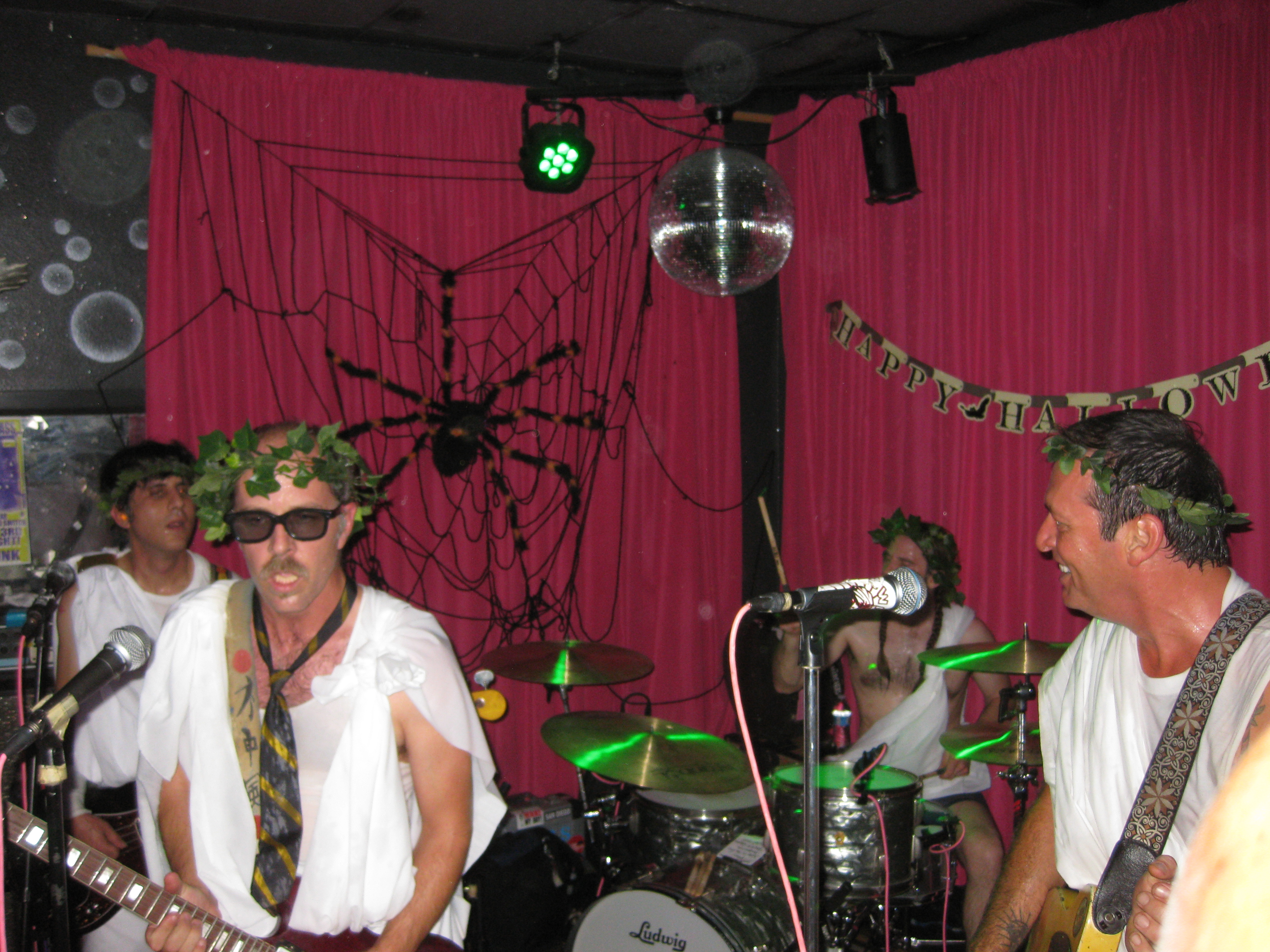 The Night Marchers performing October 31, 2012 at Bar Pink in San Diego, California. Left to right: bassist Tommy Kitsos, guitarist Gar Wood, drummer Jason Kourkounis, and singer/guitarist John Reis.